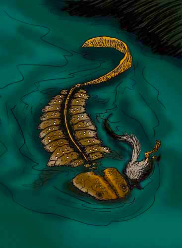 The Cretaceous temnospondyl amphibian, Koolasuchus cleelandi, of the Australian polar forests. (C) Stanton F. Fink